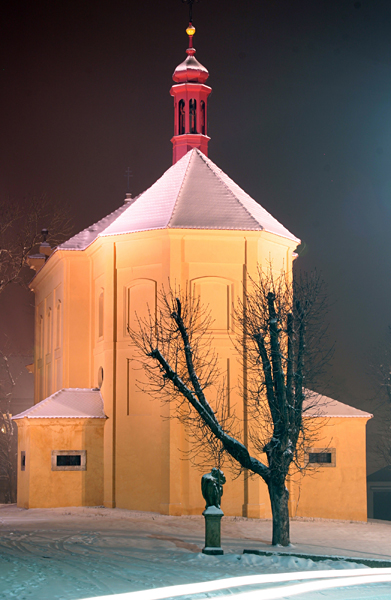 Church s. Jakub in Čížkovice (Czech Republic)